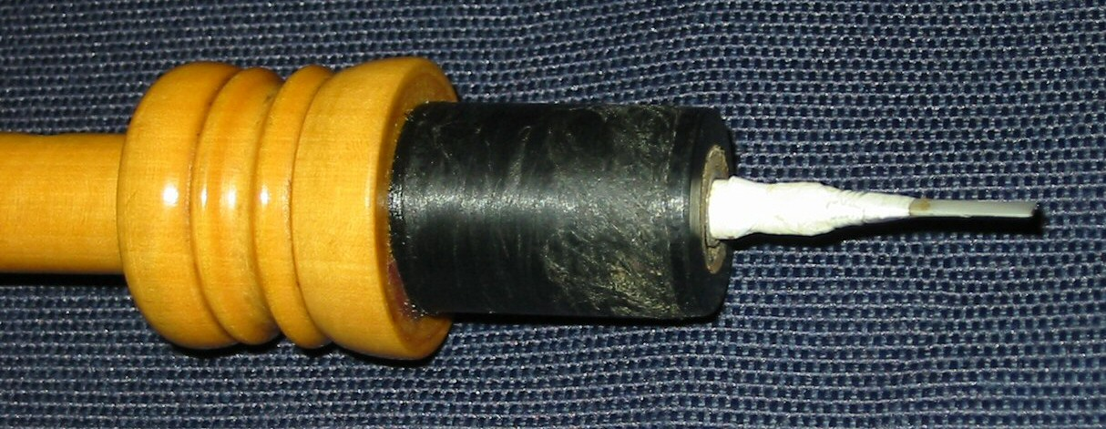 Detail of a chanter with double reed